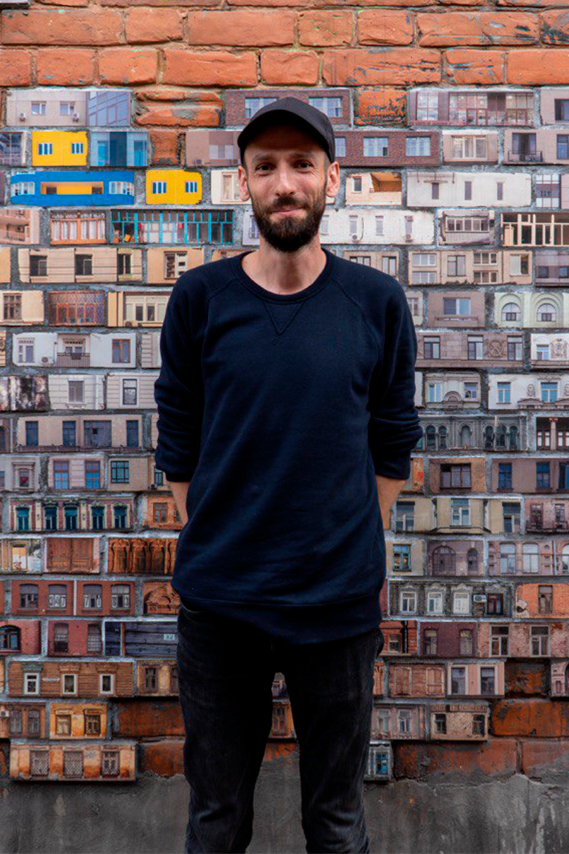 Andrey Syaylev on the background of his work "Tetris", Samara, 2016.